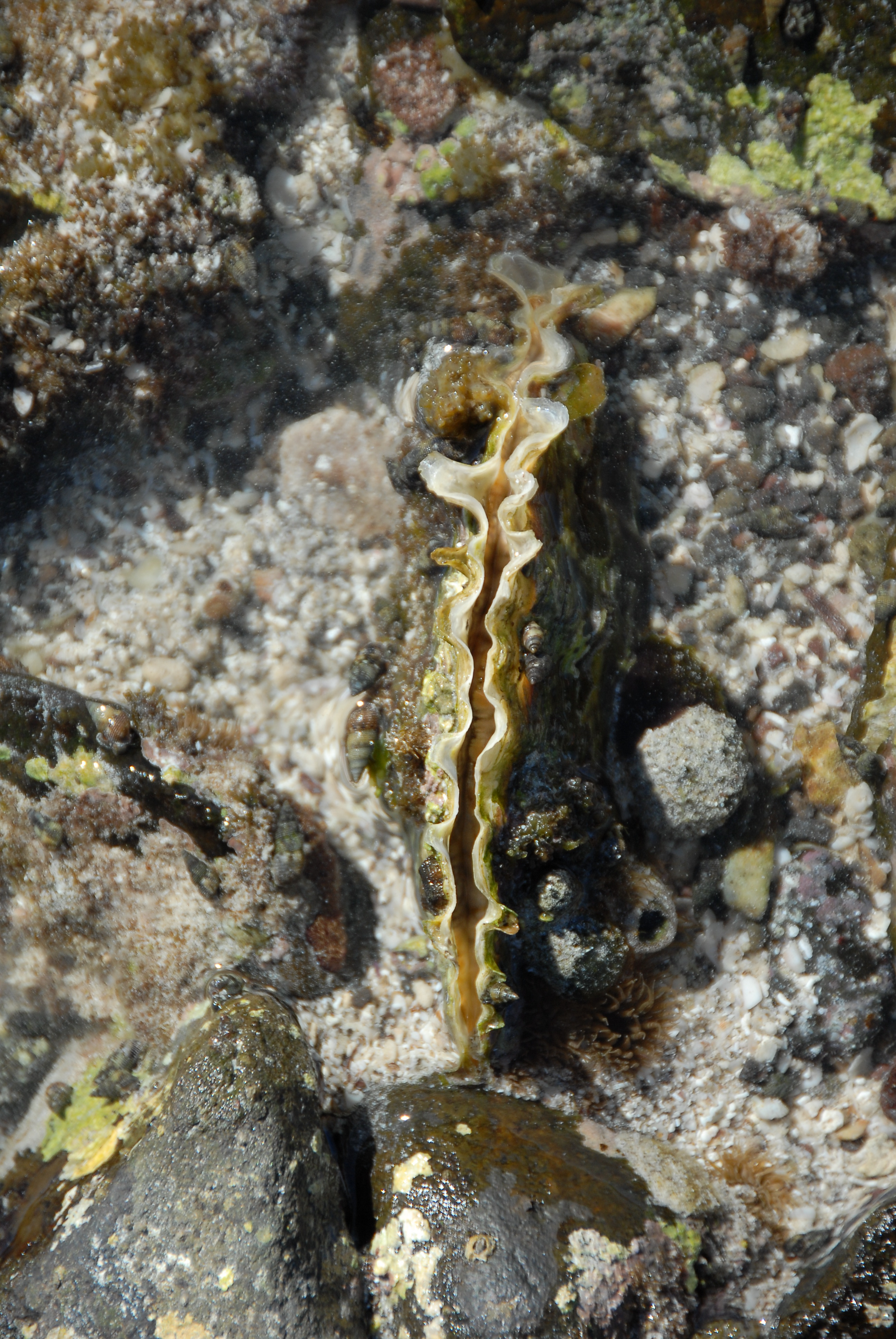 Pinctada mazatlanica (Mazatlan Pearl Oyster) photographed alive and in situ in the Gulf of California